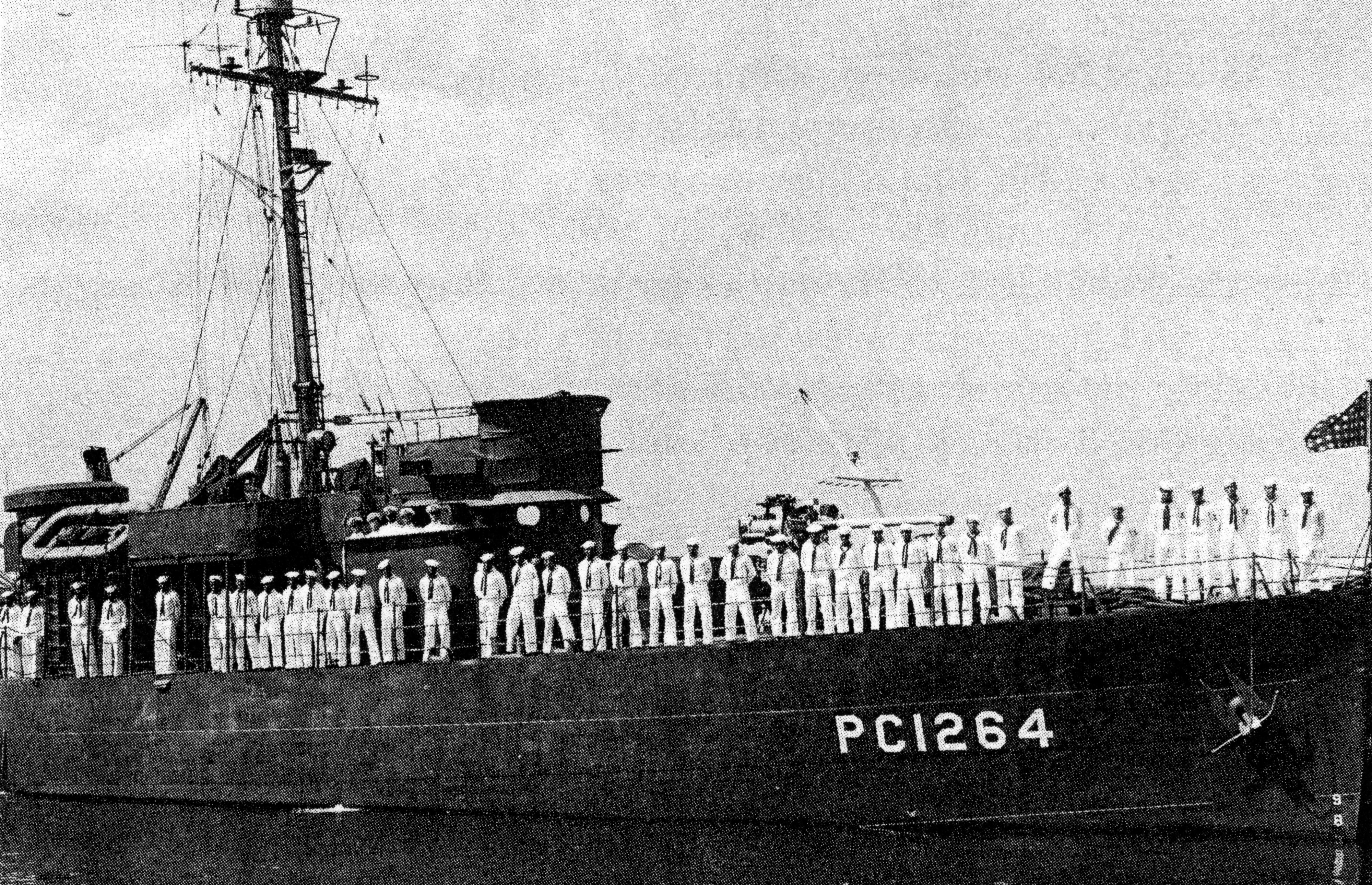 The officers and crew of the USS PC-1264 pose for a photograph sometimes during the war. The five officers are visible on the bridge. Photo may be taken sometime after early November 1944, as no white Petty Officers are visible and they were transferred off the ship in early November.